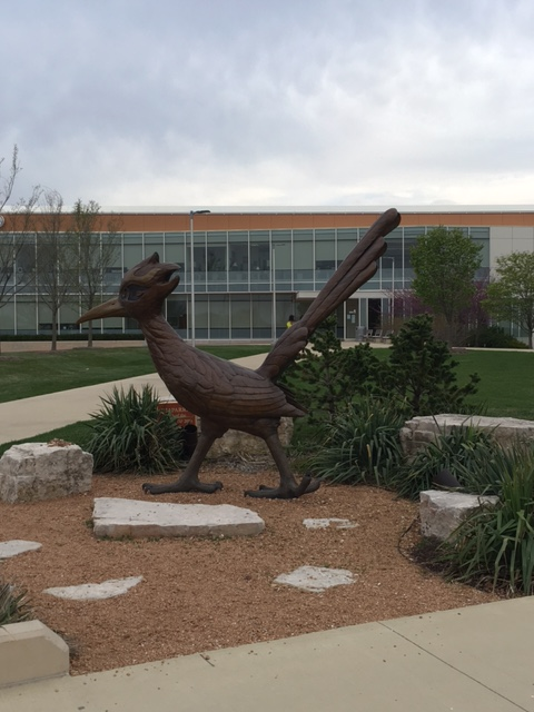 Statute of the College of DuPage mascot